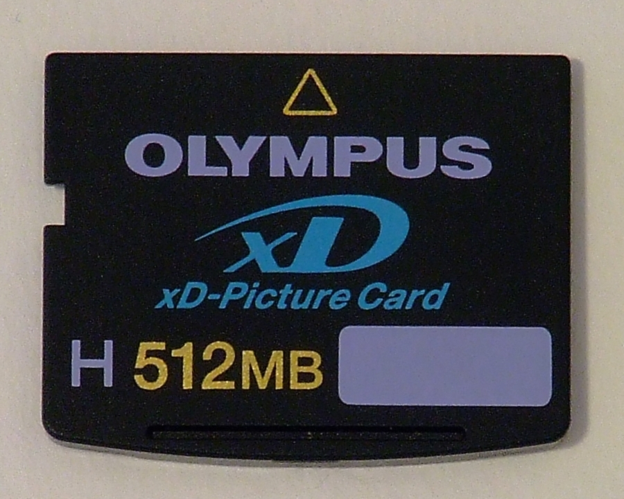 xD flash memory card, type H, 512M, Olympus.